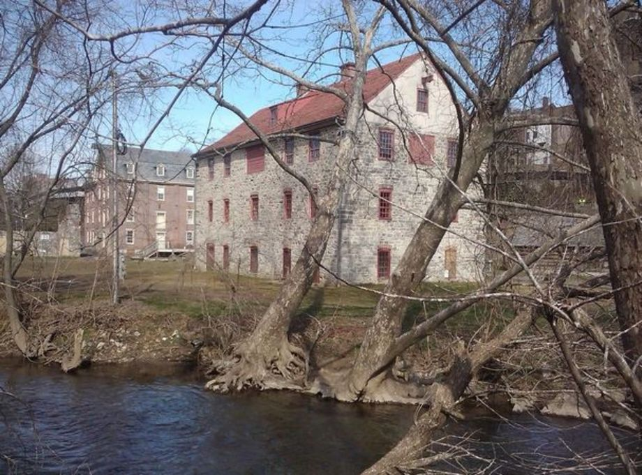 The Colonial Industrial Quarter in Bethlehem, Pennsylvania.